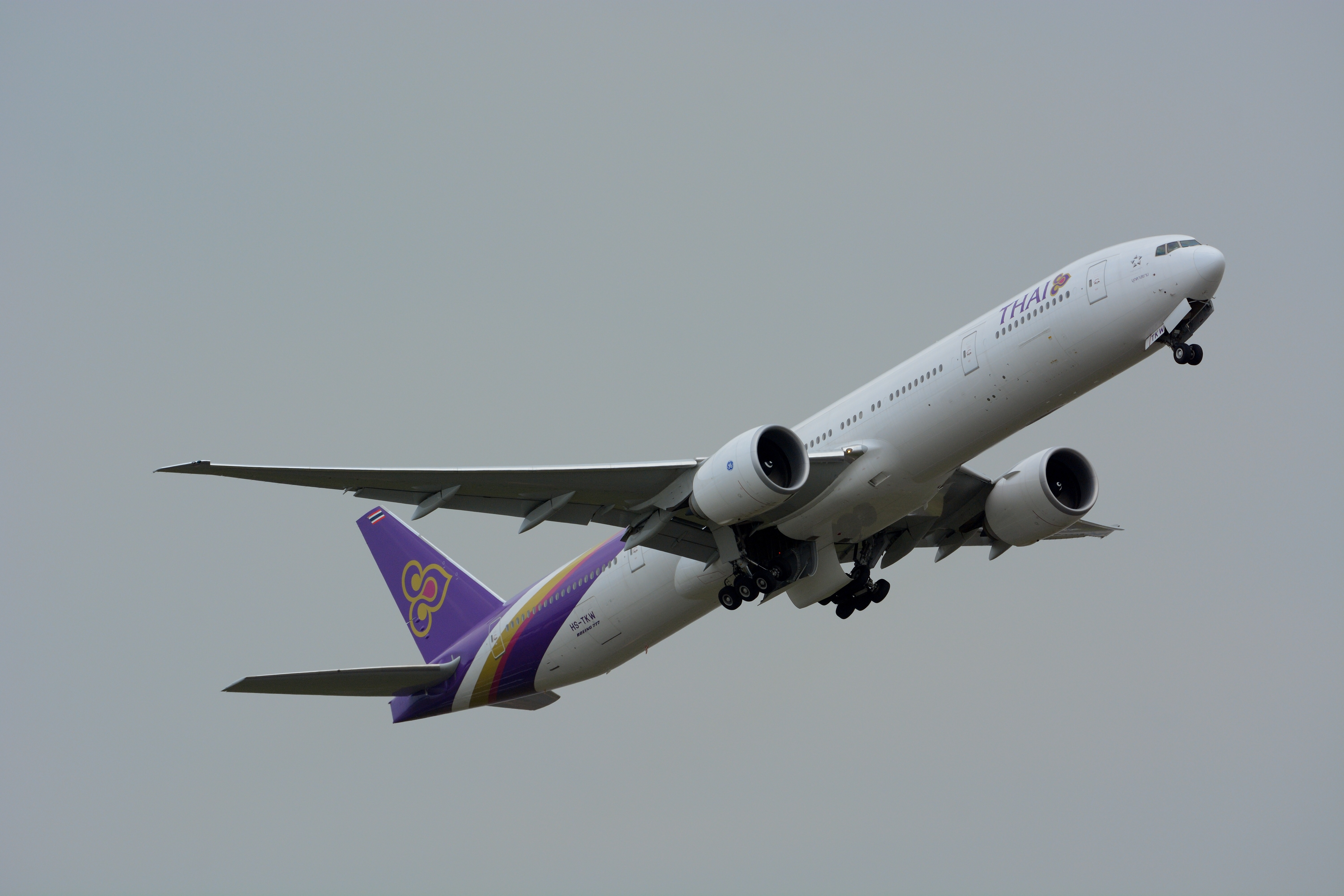 Thai Airways, Boeing 777-300ER HS-TKW NRT